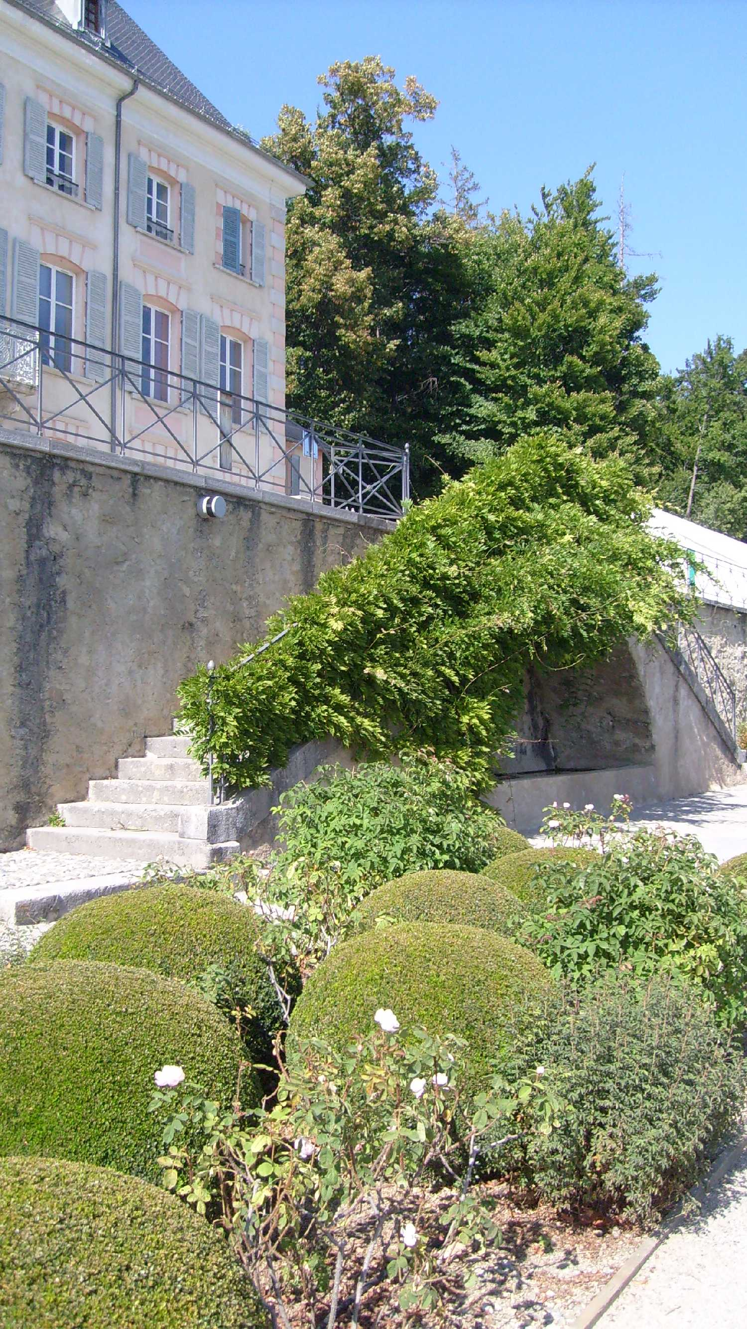 Palace of Charance and the boxtrees terrace (Gap, Hautes-Alpes).